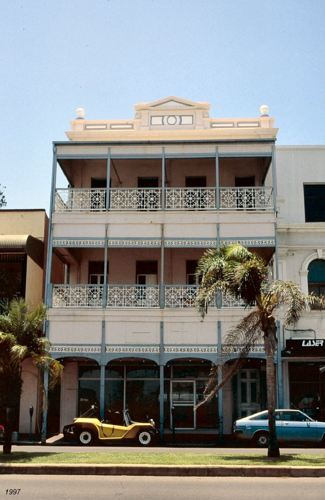 Atinee Building, formerly Commercial Bank of Australia Building, 1997